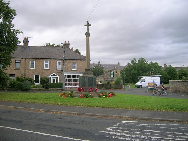 Wylam Original description: Wylam war memorial